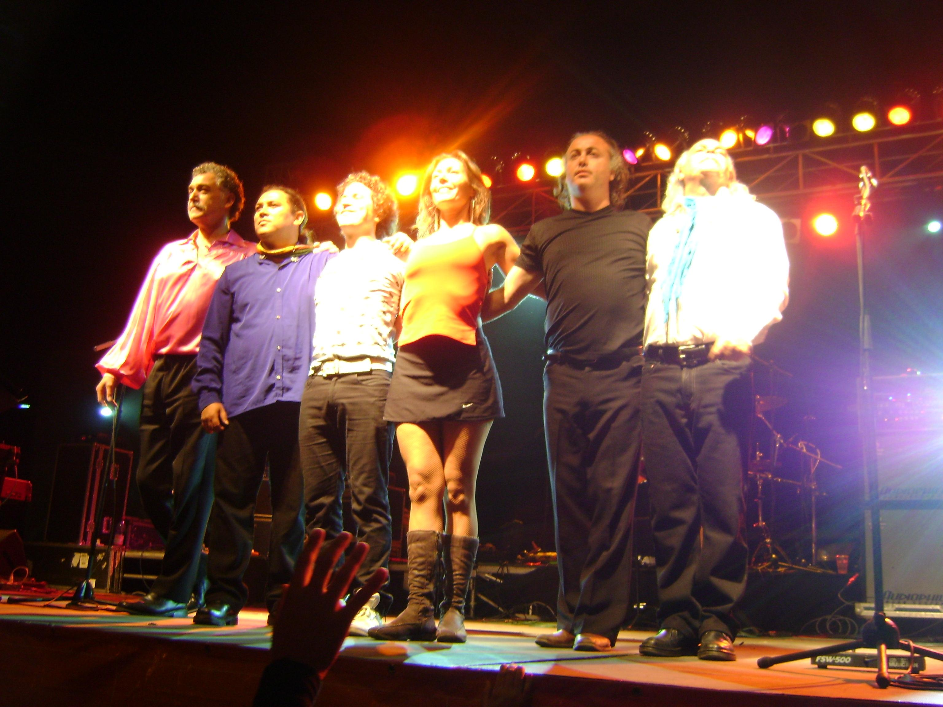 Los Jaivas performing in Pichilemu, Chile.